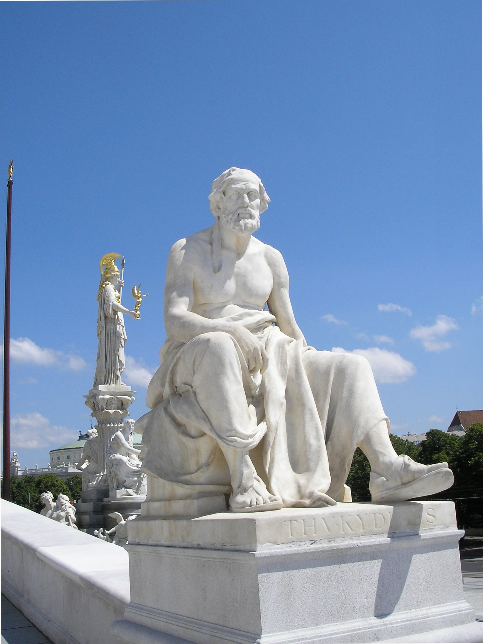 Austria, Vienna, Austrian Parliament Building